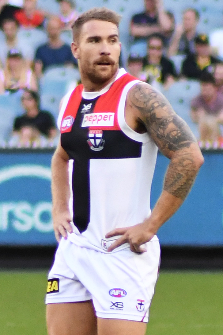 Dean Kent of St Kilda during the 2019 AFL round 5 match between Melbourne and St Kilda at the Melbourne Cricket Ground on Saturday, 20 April 2019 in Melbourne, Victoria.